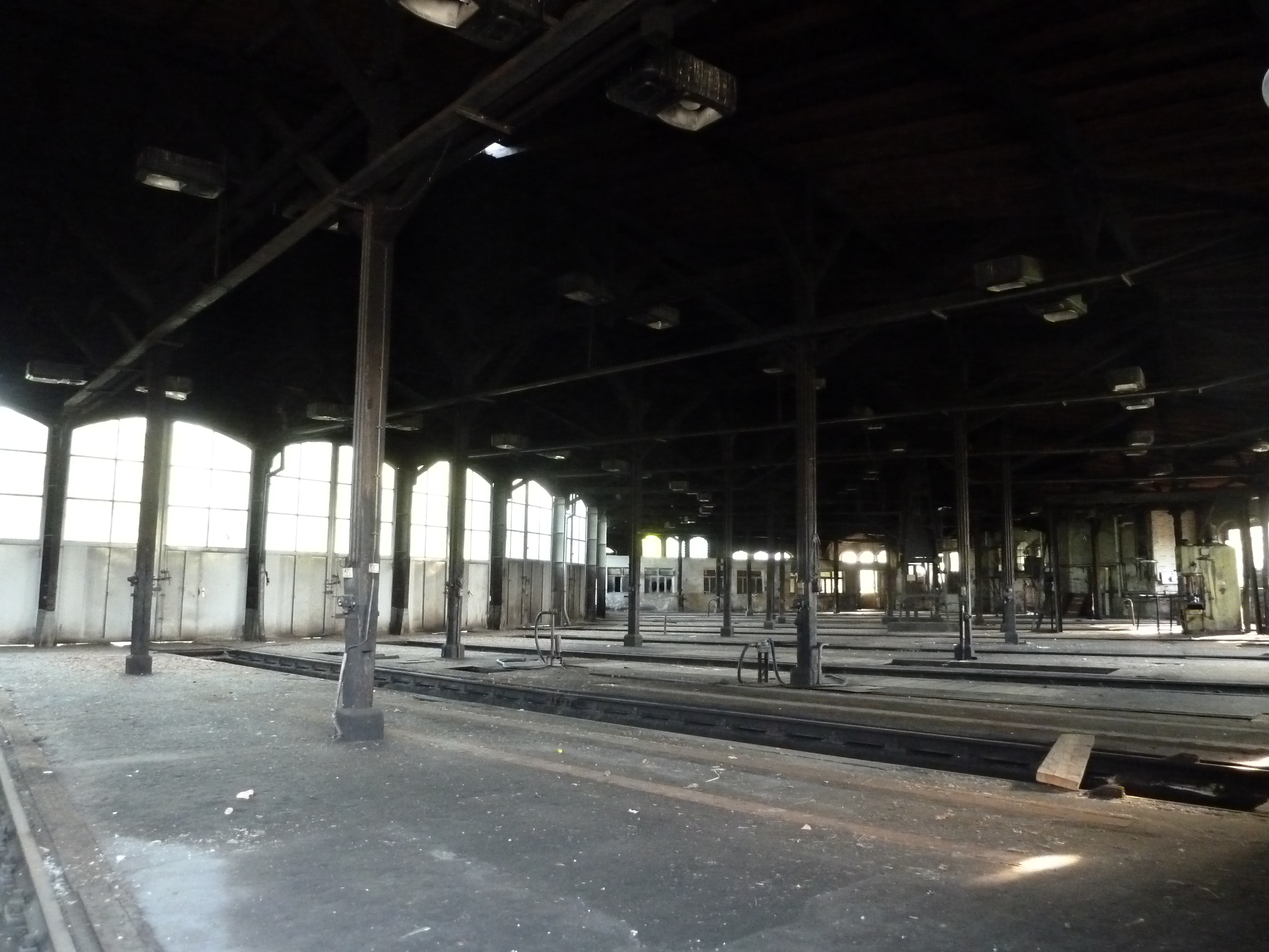 Wustermark Rangierbahnhof, inside train shed.